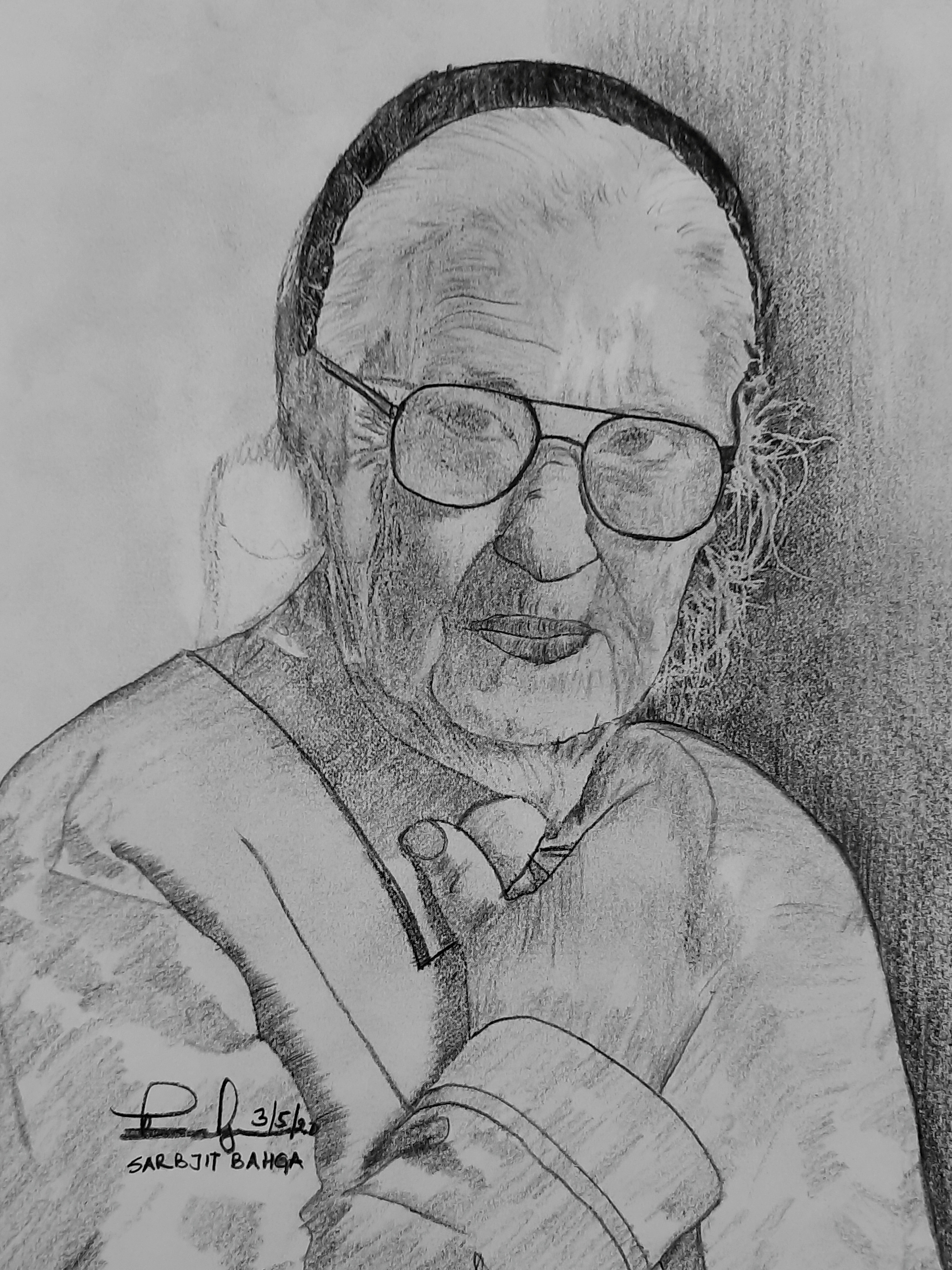 Jane Drew - A pencil sketch by Sarbjit Bahga